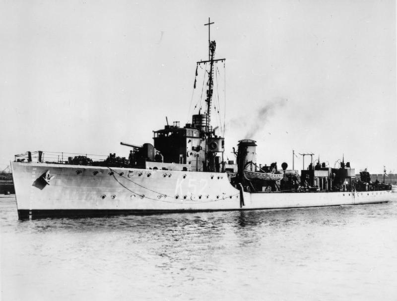 Photograph of British Kingfisher class sloop HMS Puffin (L52).